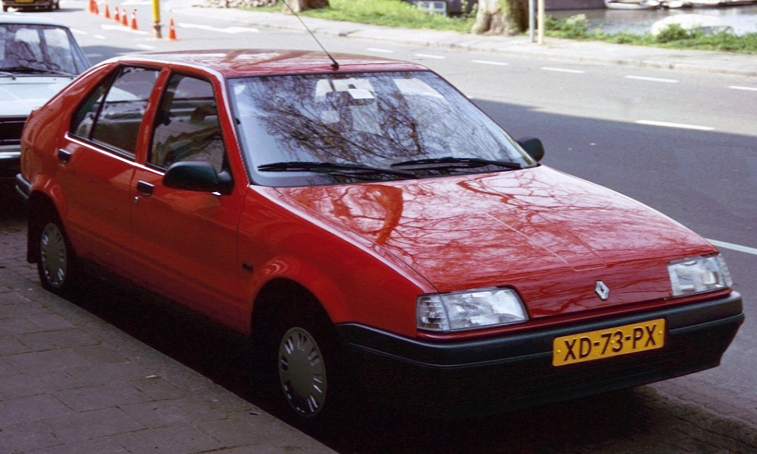 Renault 19 from the front (pre face lift)